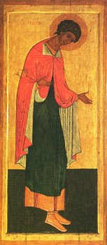 Saint_George. The Icon from the Church of Laying Our Lady’s Holy Robe from the village of Borodava near Ferapontov Monastery.